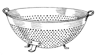 Line art drawing of a colander.